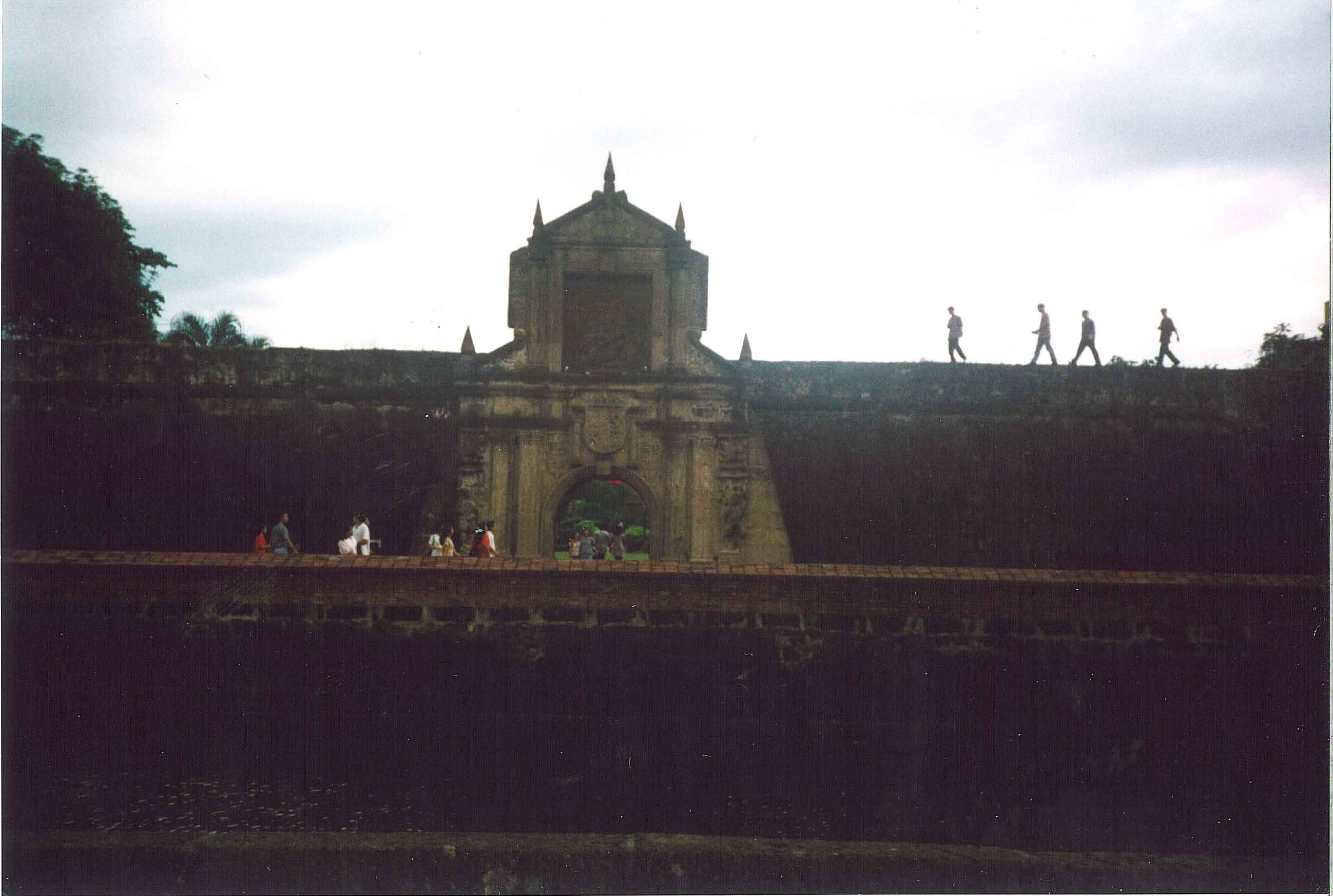 The entrance to Fort Santiago in Manila, Philippines.